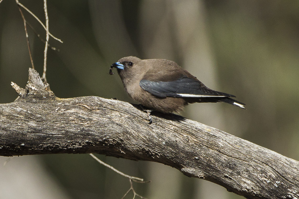 Dusky Woodswallow - Victoria_S4E2155